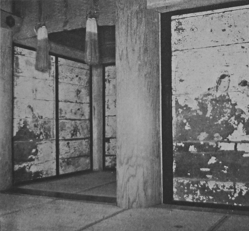 Partition paintings in the honden (prior to their removal), Yaegaki Jinja, Matsue, Shimane, Japan 八重垣神社の壁画